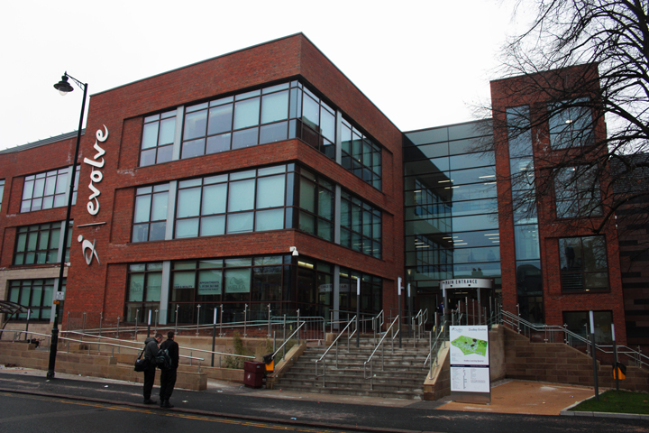 The Evolve Campus of Dudley College, on the corner of Tower Street and The Broadway.